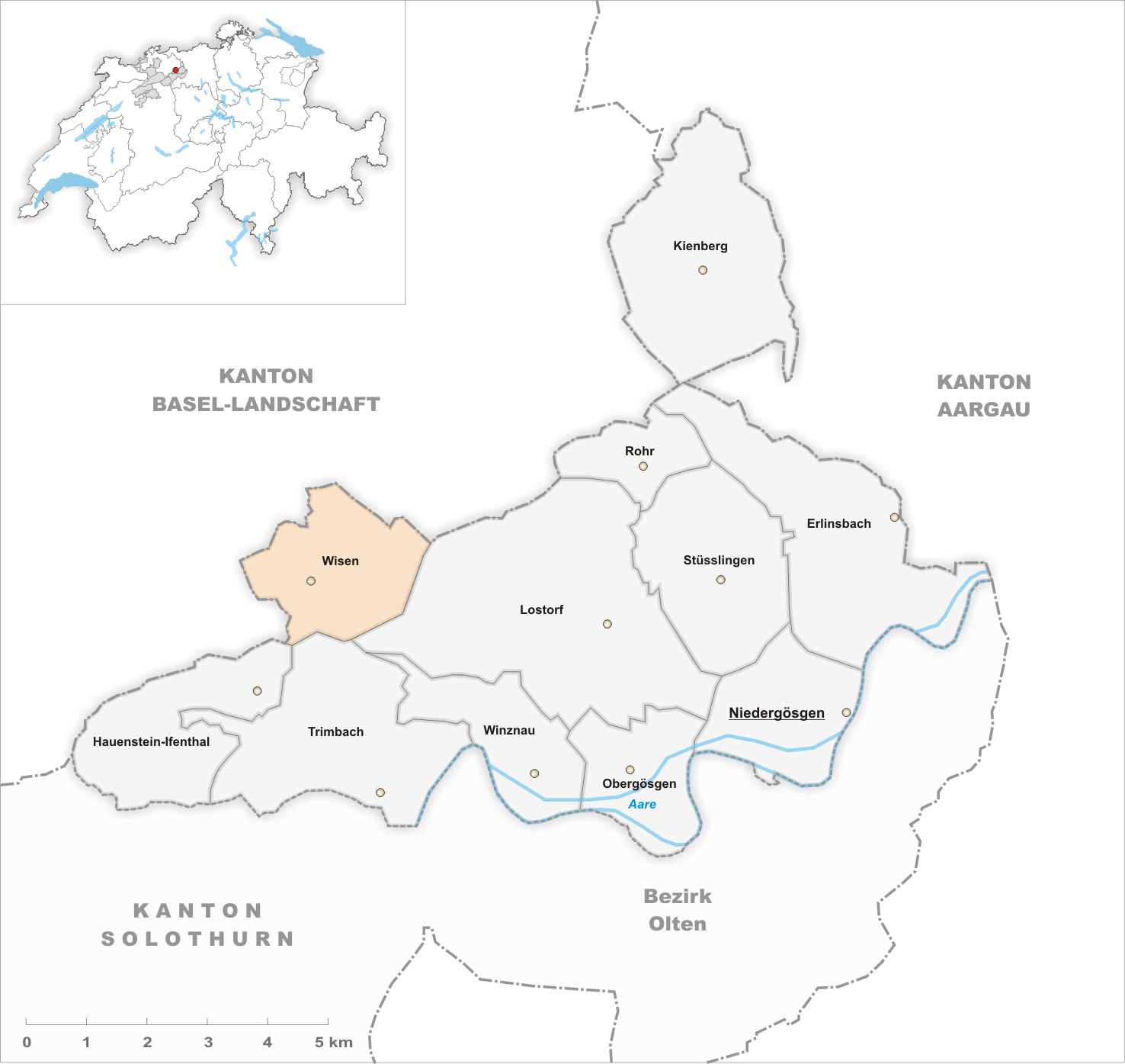 Municipality Wisen